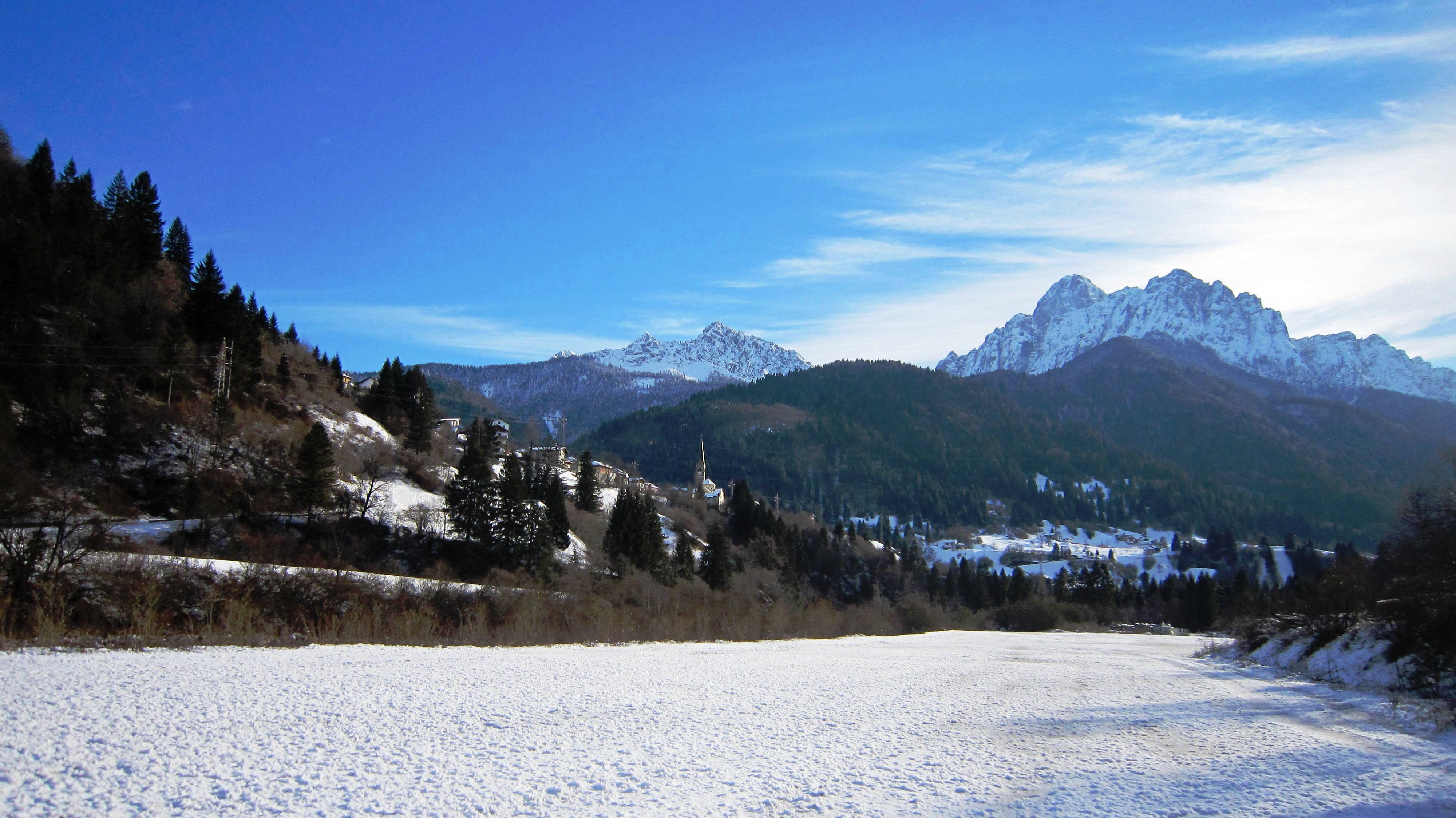 paularo sernio da saletti